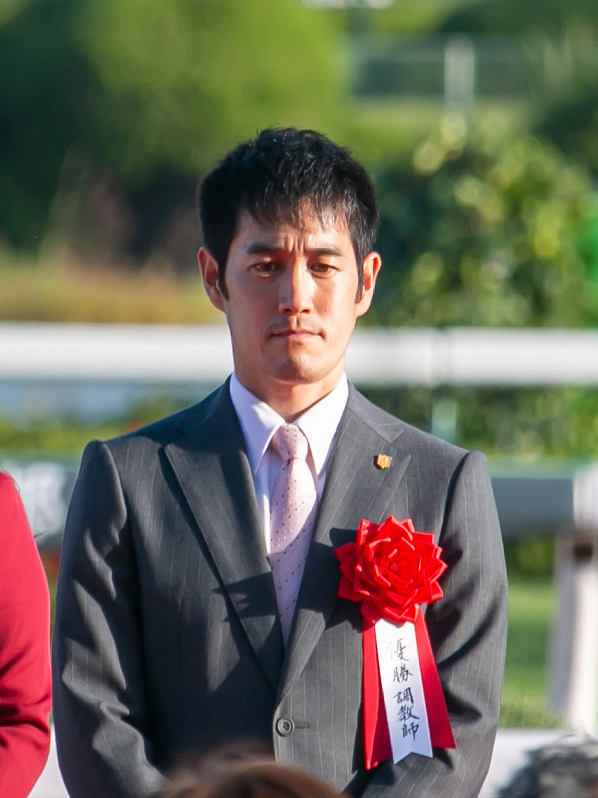 Takashi Saito, Horse trainers of JRA.